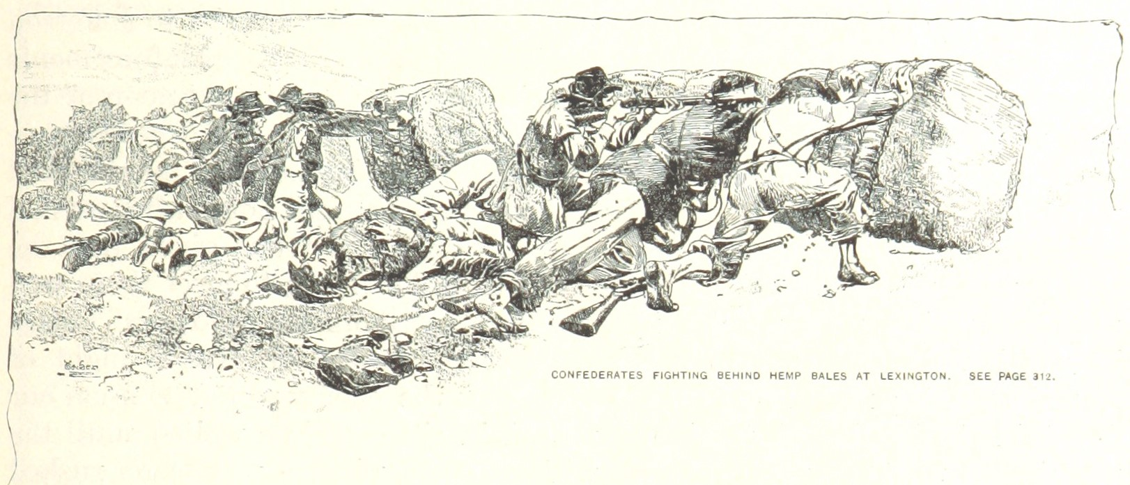 During the First Battle of Lexington, Confederate troops roll water-soaked hemp bales as a mobile breastwork.